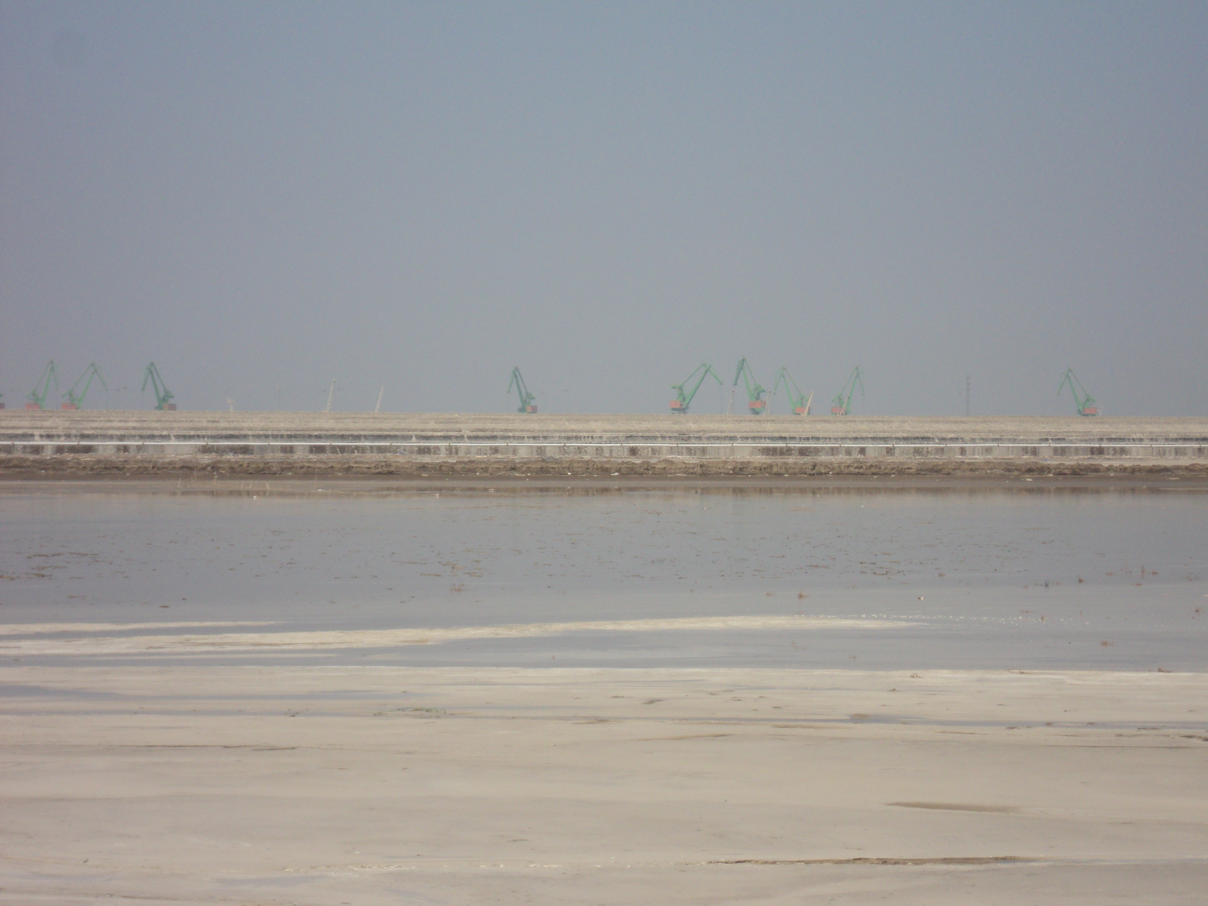 Remaining slat flat within the boundaries of the Port. The Tianjin coast used to be dominated by salt- and mudflats, until land reclamation covered them up.